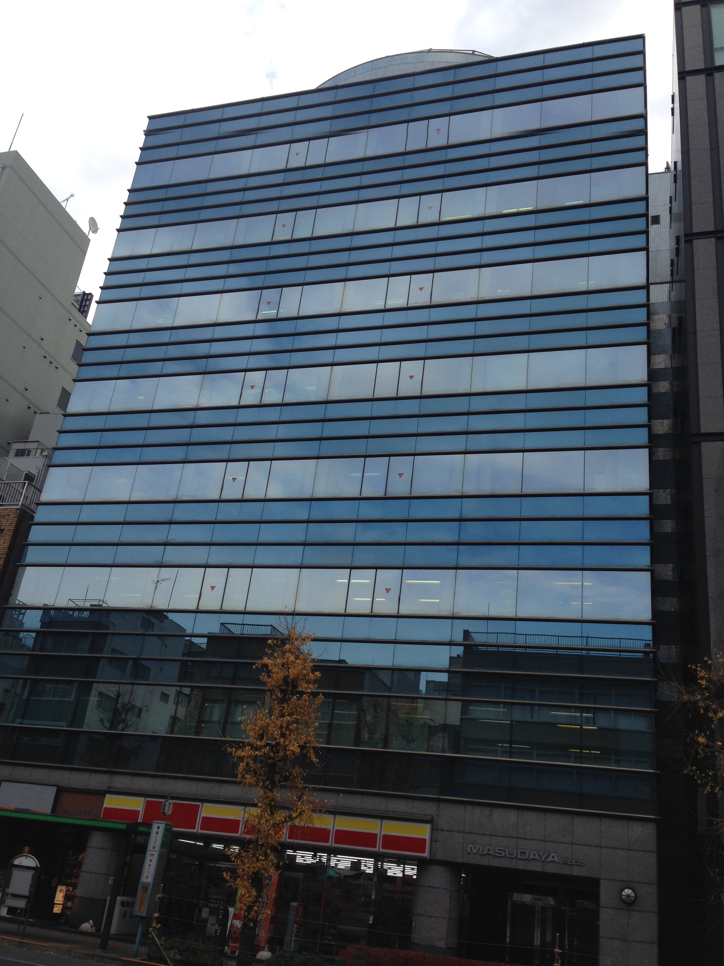 ©YANOMAN CORPORATION All rights reserved.